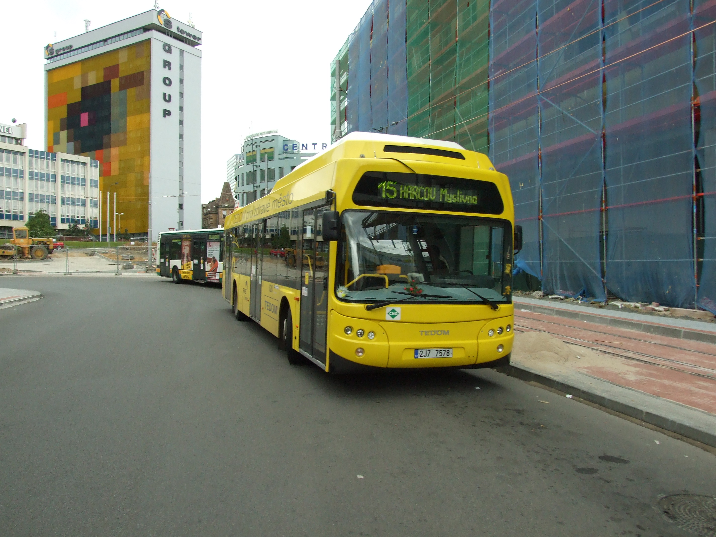 Buses in Liberec, city buses and intercity coaches, CZhelp